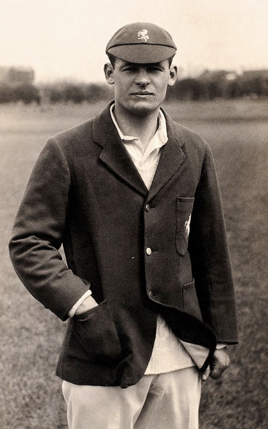 Kent cricketer Bill Ashdown, circa 1932.